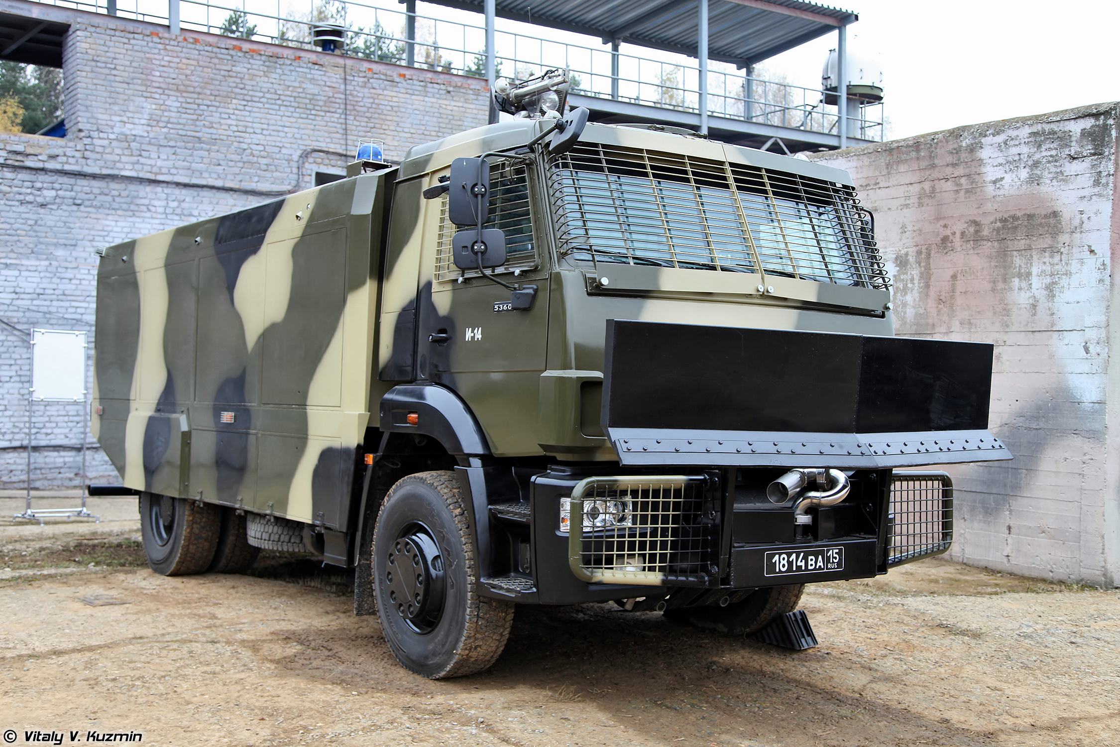 Antiriot vehicle Shtorm on KAMAZ-53605 chassis